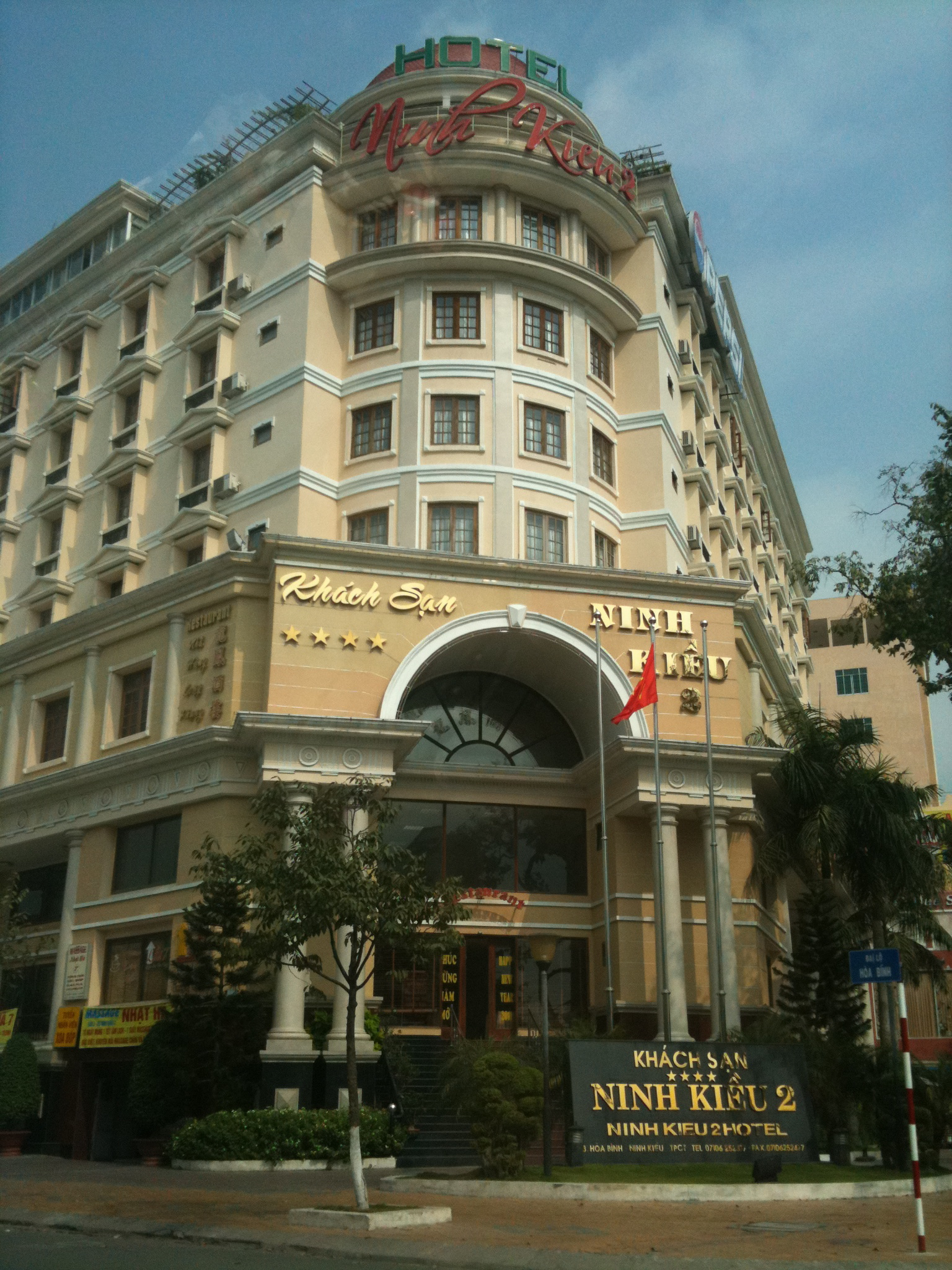 The front entrance of Ninh Kieu Hotel, Hoa Binh St., Can Tho, Vietnam.